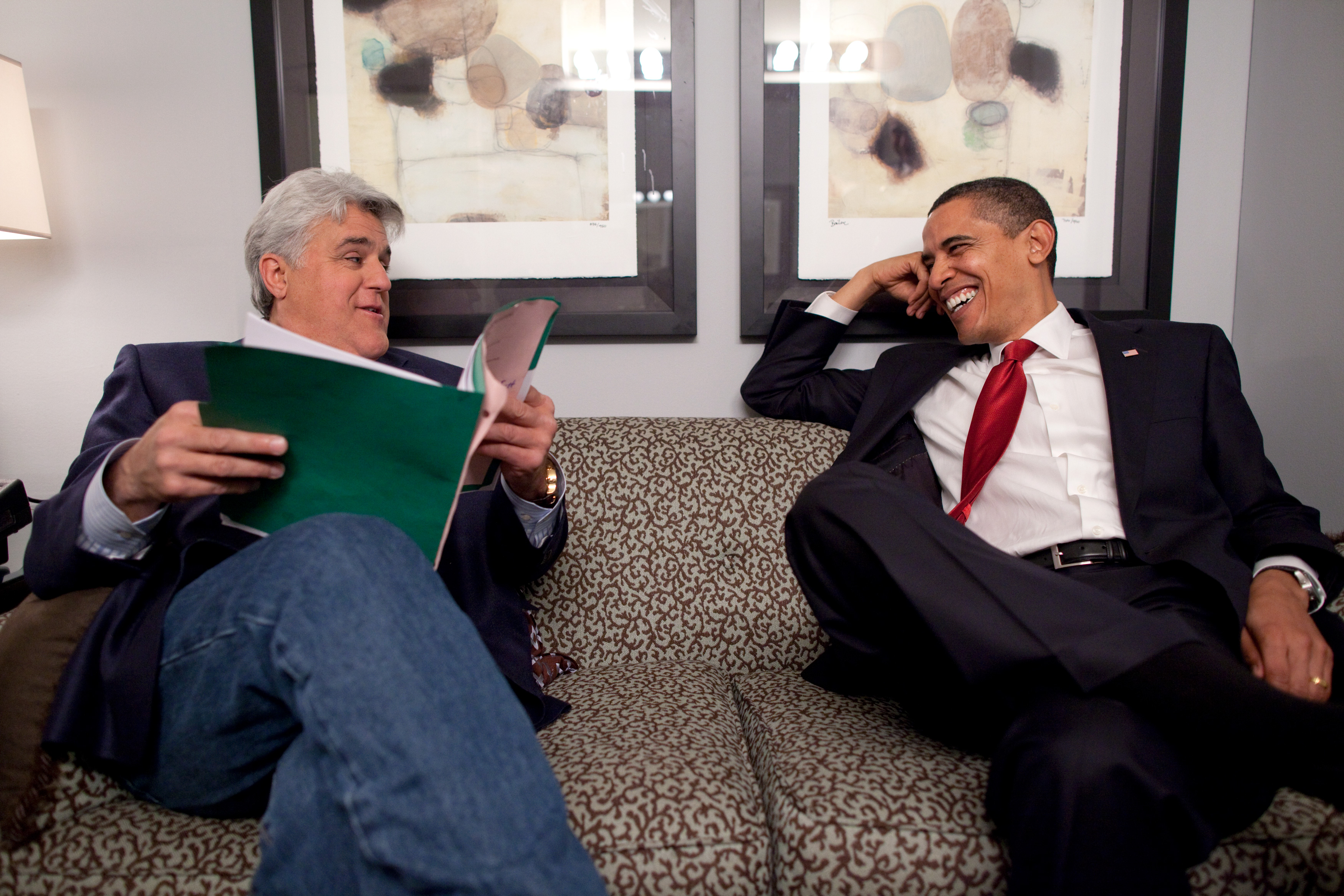 United States President Barack Obama speaks with Jay Leno off the set of The Tonight Show at NBC Studios in Burbank, California on 19 March 2009.